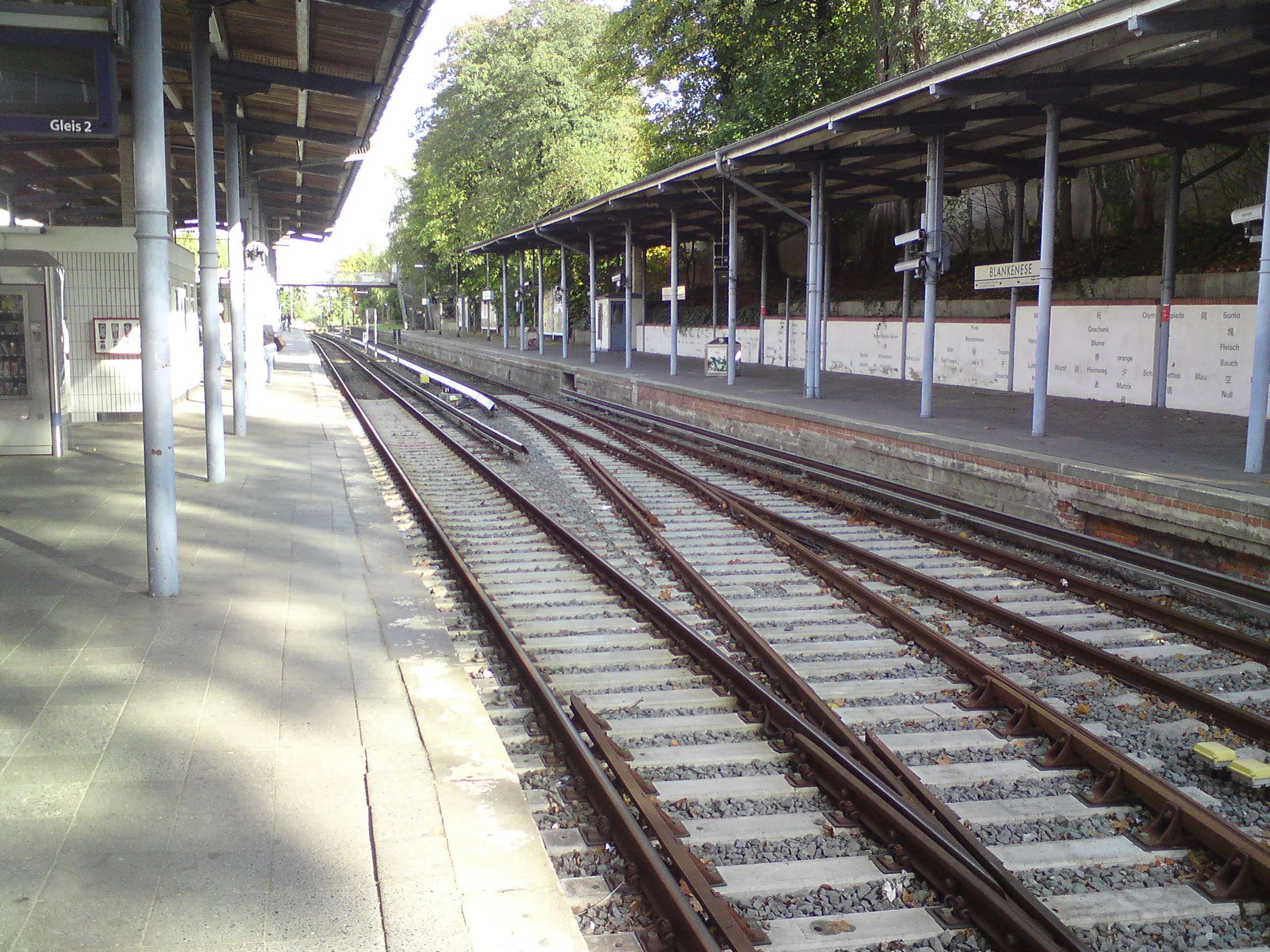 Railway Station Blankenese in Hamburg, Germany, platforms and tracks